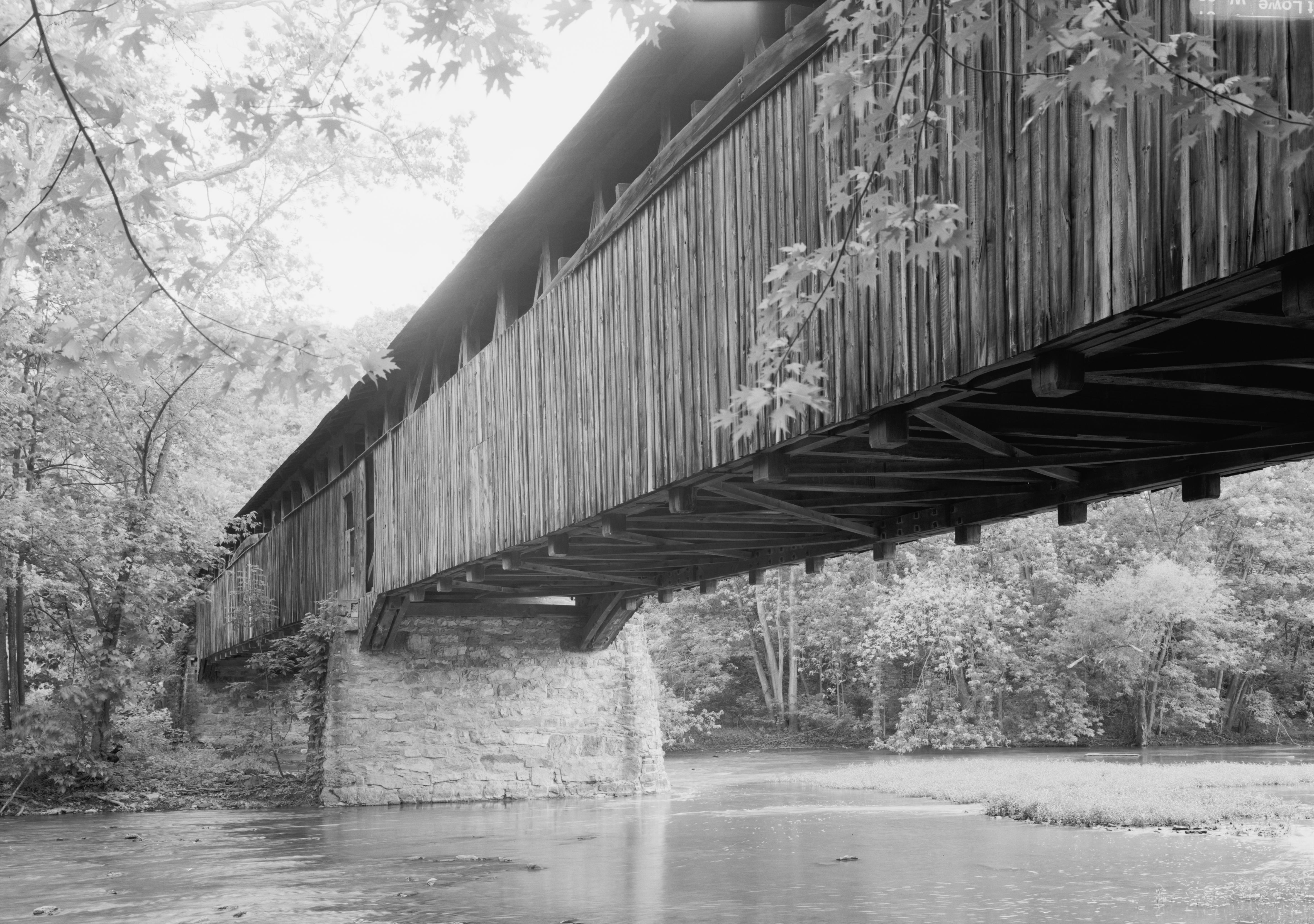 Academia Bridge, Spanning Tuscarora Creek, bypassed section of Mill, Academia (Juniata County, Pennsylvania).